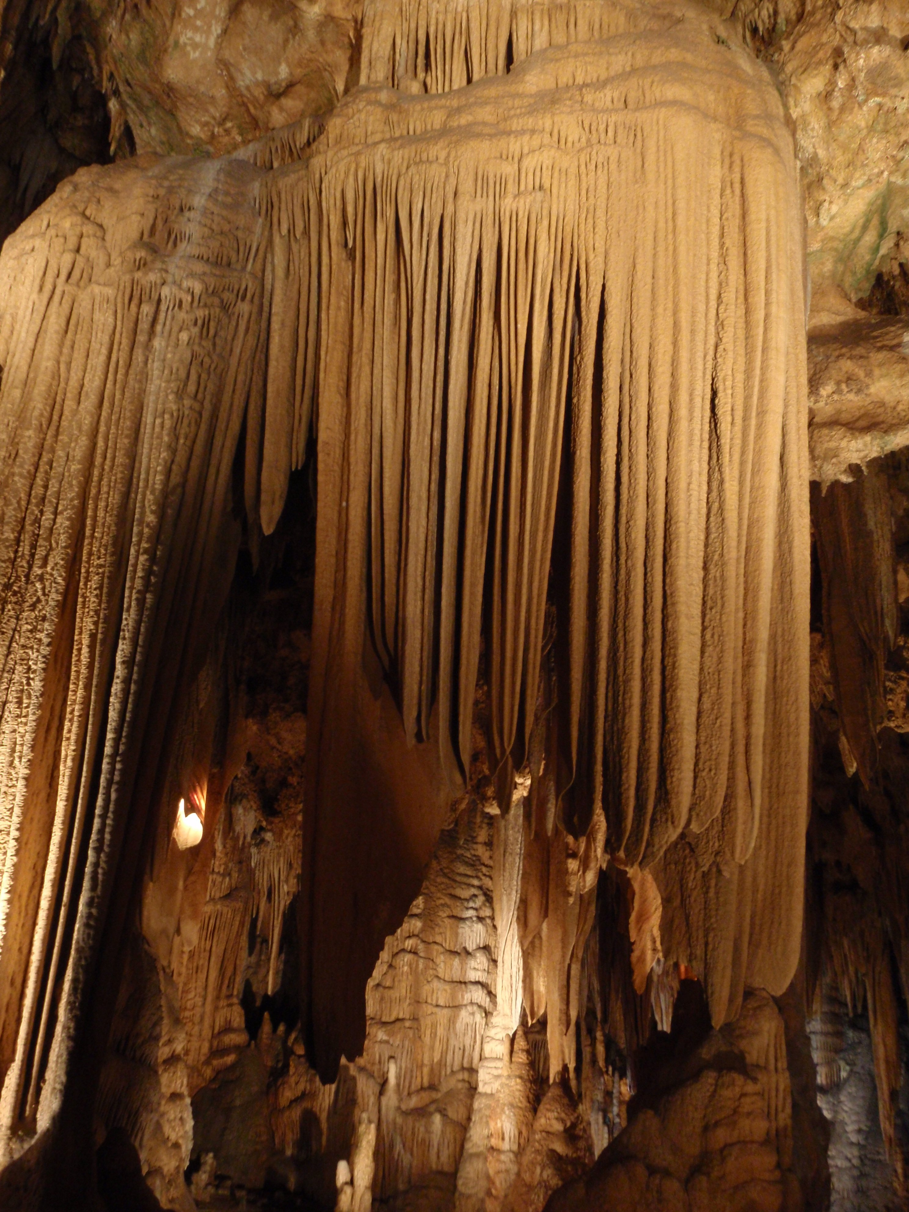 An image of the Drapery or Flowstone in Luray Caverns known as "Saracen's Tent".